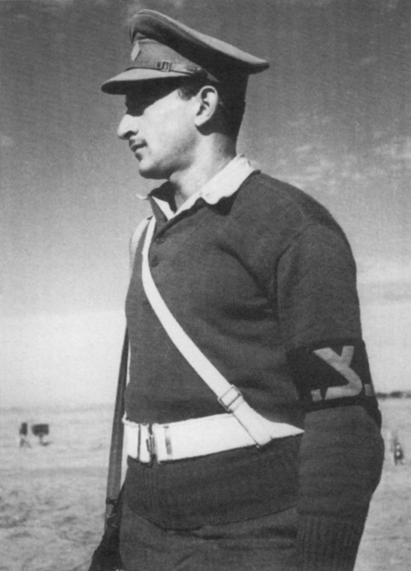 An Israeli military policemand in the 1948 Arab-Israeli War. This work or image is now in the public domain because its term of copyright has expired in Israel. According to Israel's copyright statute from 2007 (translation), a work is released to the public domain on 1 January of the 71st year after the author's death (paragraph 38 of the 2007 statute) with the following exceptions: A photograph taken on 24 May 2008 or earlier — the old British Mandate act applies, i.e. on 1 January of the 51st year after the creation of the photograph (paragraph 78(i) of the 2007 statute, and paragraph 21 of the old British Mandate act). If the copyrights are owned by the State, not acquired from a private person, and there is no special agreement between the State and the author — on 1 January of the 51st year after the creation of the work (paragraphs 36 and 42 in the 2007 statute). See also category: PD Israel & British Mandate. .